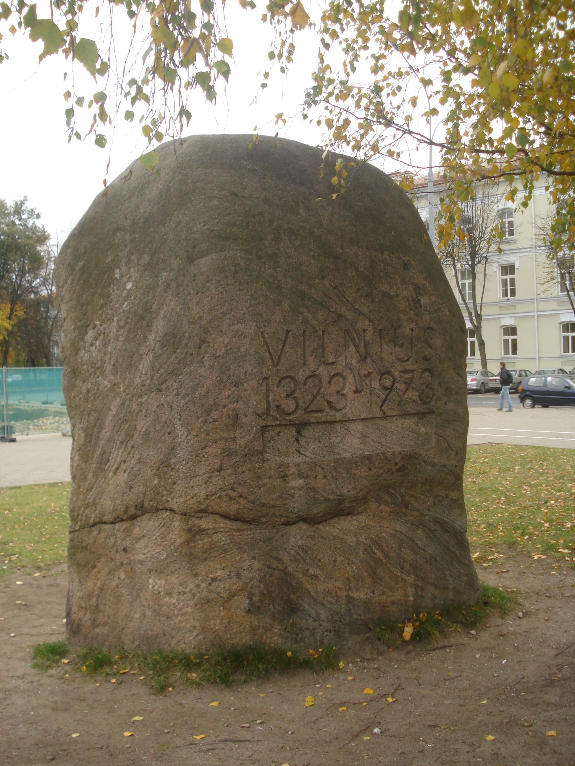 1323-1973. Memorial stone in the Cathedral Square in Vilnius marks the date of foundation of the capital city.